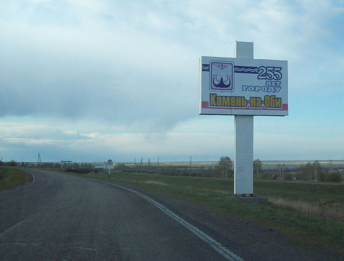 Highway R-380 near Kamen-na-Obi